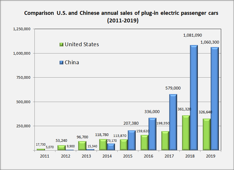 Comparison of annual sales of highway legal plug-in electric passenger cars in China and the United States between 2011 and 2019Source: U.S. and China (2011-2019): Global EV Outlook 2020 - June 2020)